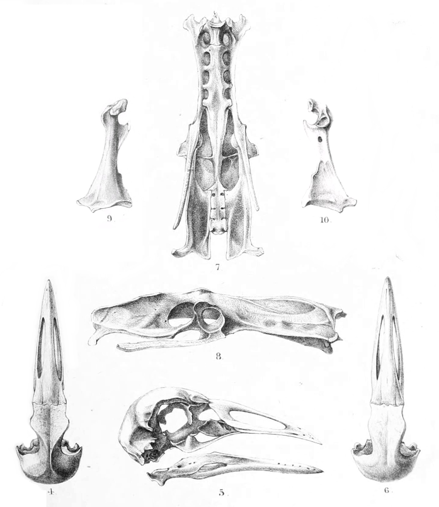 « Palaeolimnas chathamensis » = Fulica chathamensis (Chatham Island Coot) 4. Skull from above 5. Skull and mandible from side 6. Skull from above (specimen in which the supra-orbital depressions are only slightly marked) 7. Pelvis from above 8. Pelvis from side 9. Coracoid anterior surface 10. Coracoid posterior surface